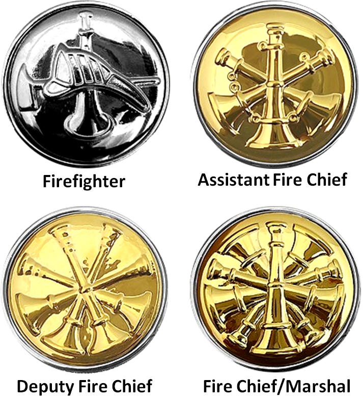 U.S. Air Force Fire Protection Badge shield (a.k.a. "scramble") variants